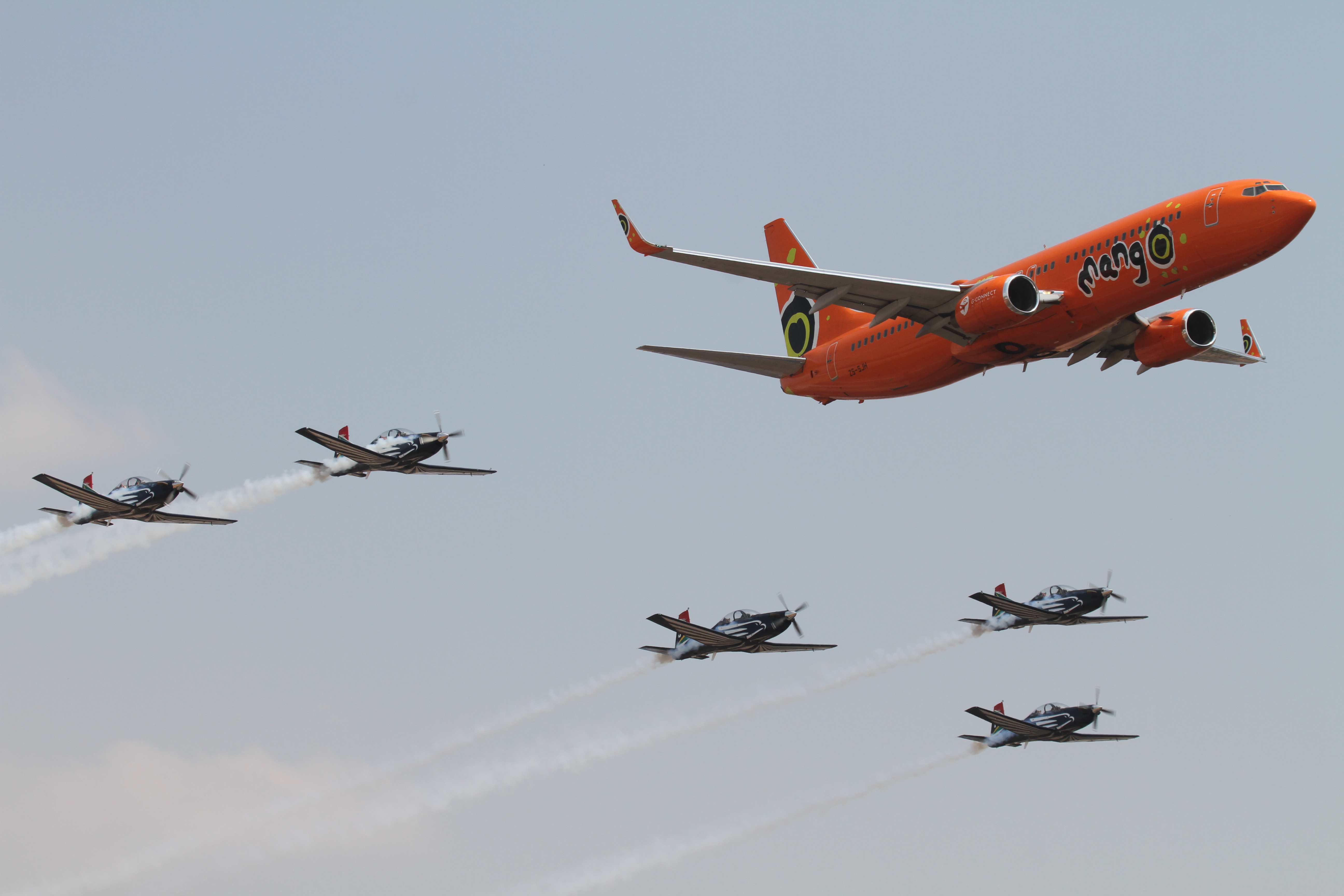 A 737 from mango Airlines flying in formation with the Silver Falcons at AAD 2014